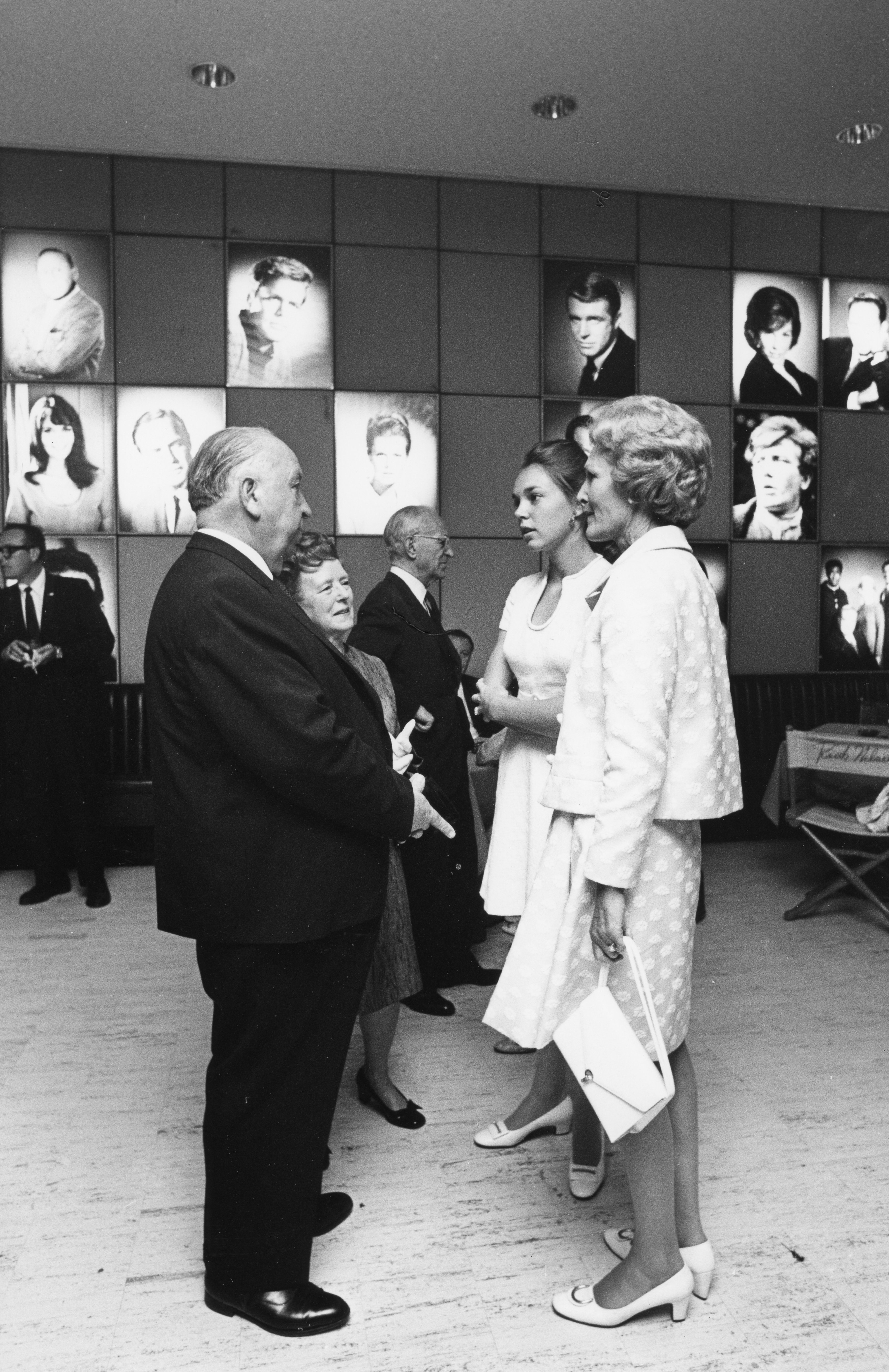 First Lady Pat Nixon and daughter Julie Nixon Eisenhower with Hollywood film director Alfred Hitchcock and his wife. WHPO 1411-15A